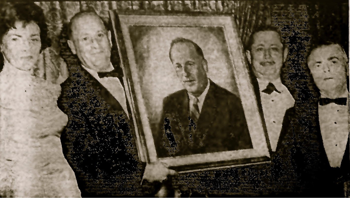 Stanley Steinbeck receiving portrait from Crown Heights Yeshiva